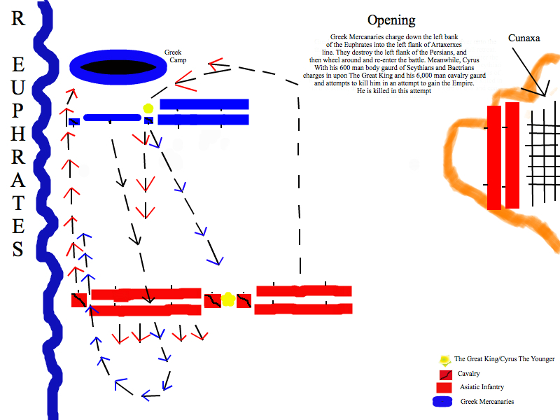 Battle of Cunaxa, opening stage up to the death of Cyrus